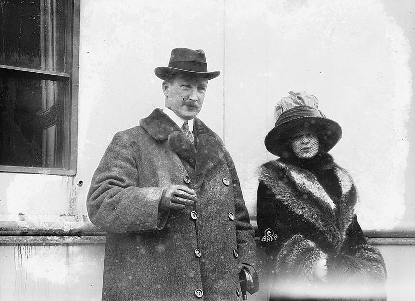 John Beresford, 5th Baron Decies (1866-1944), and his wife Helen Vivien Gould (1885-1931)